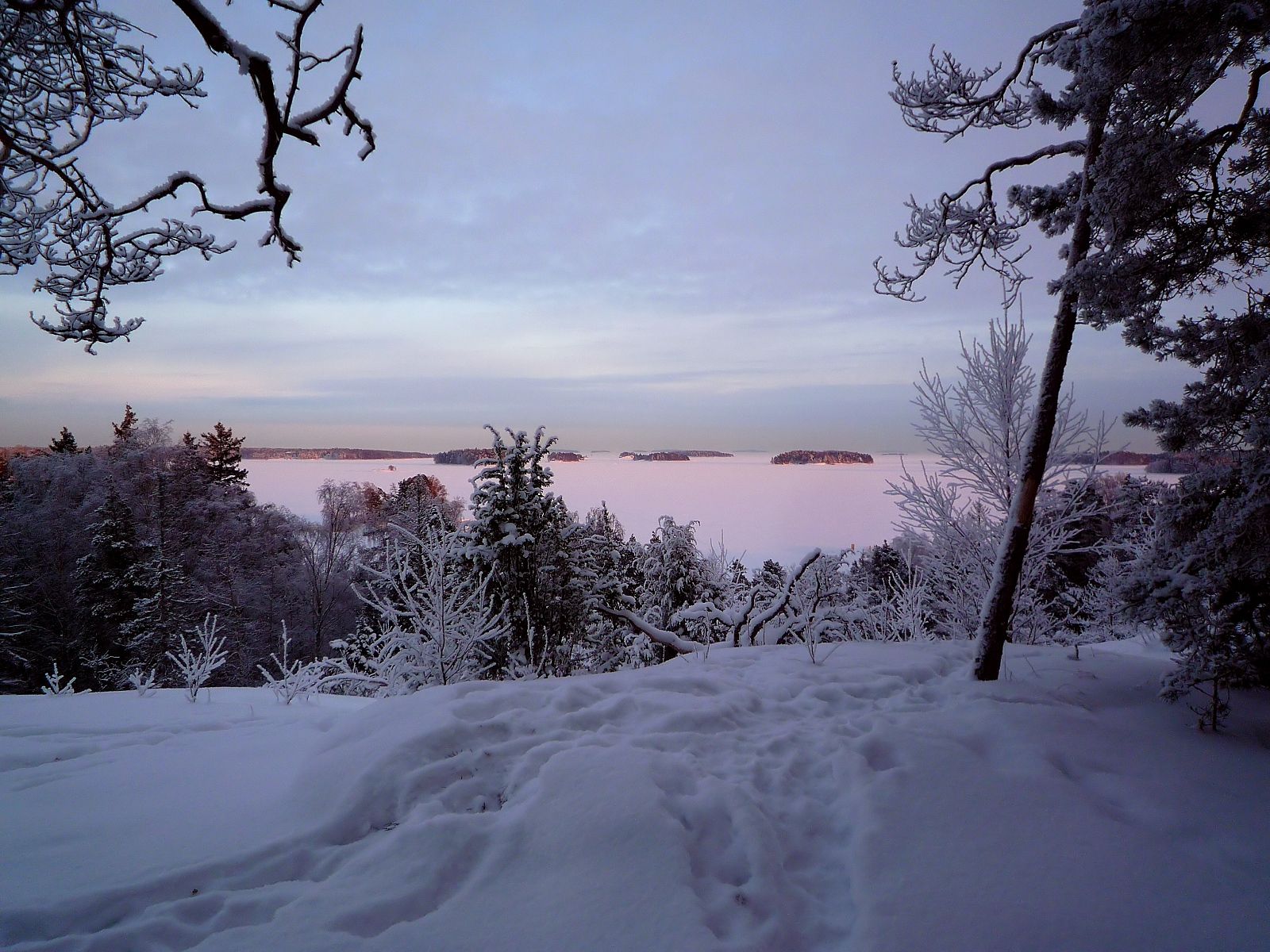 Vartiosaari district in Helsinki